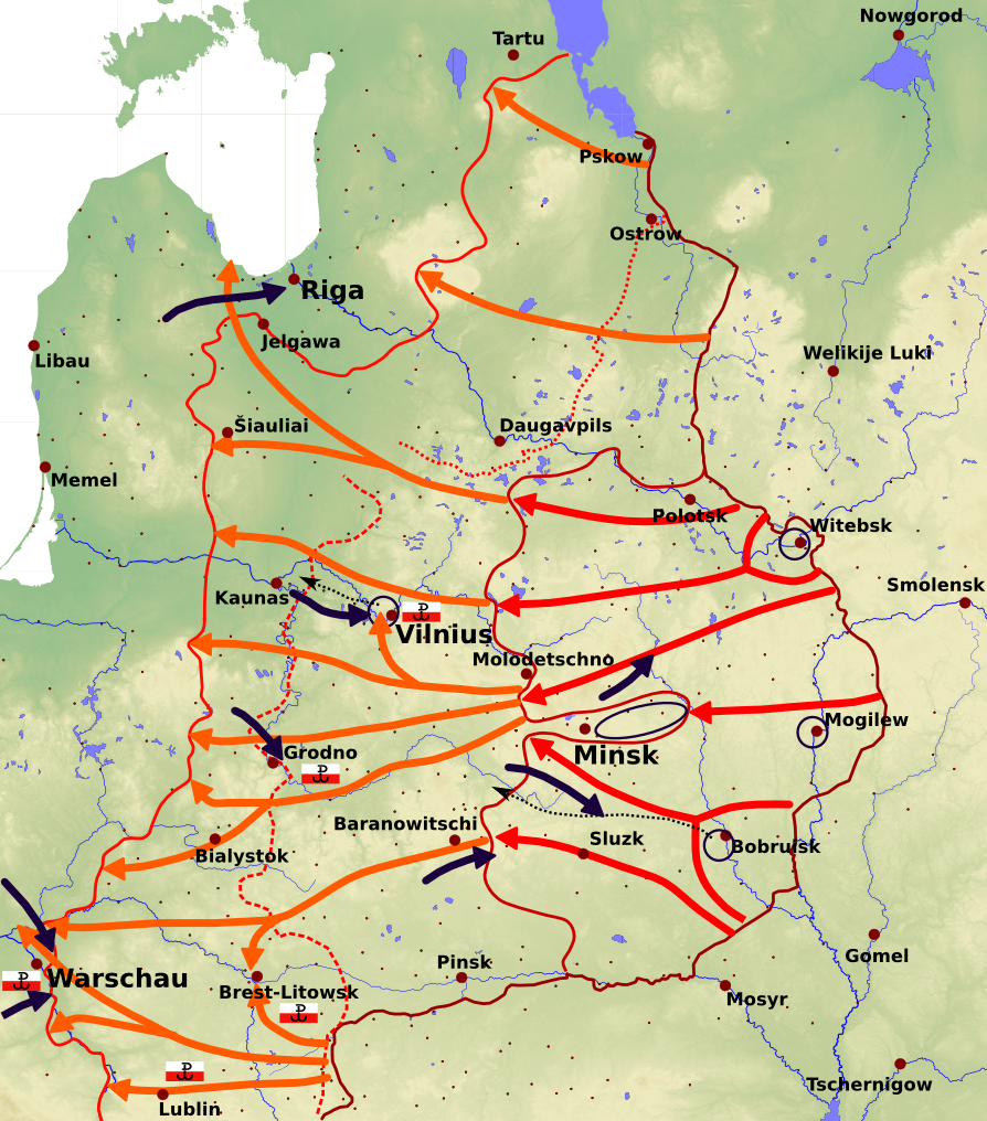 overview of military operations conducted by the red army during operation bagration (22. june 1944 - 29. august 1944)